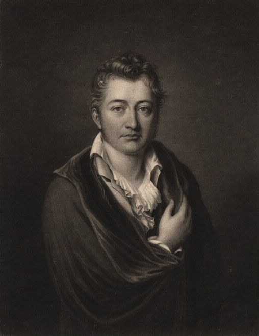 "Henry Philip Hope, Esq.", mezzontint, purchased in 1966 (NPG D656).